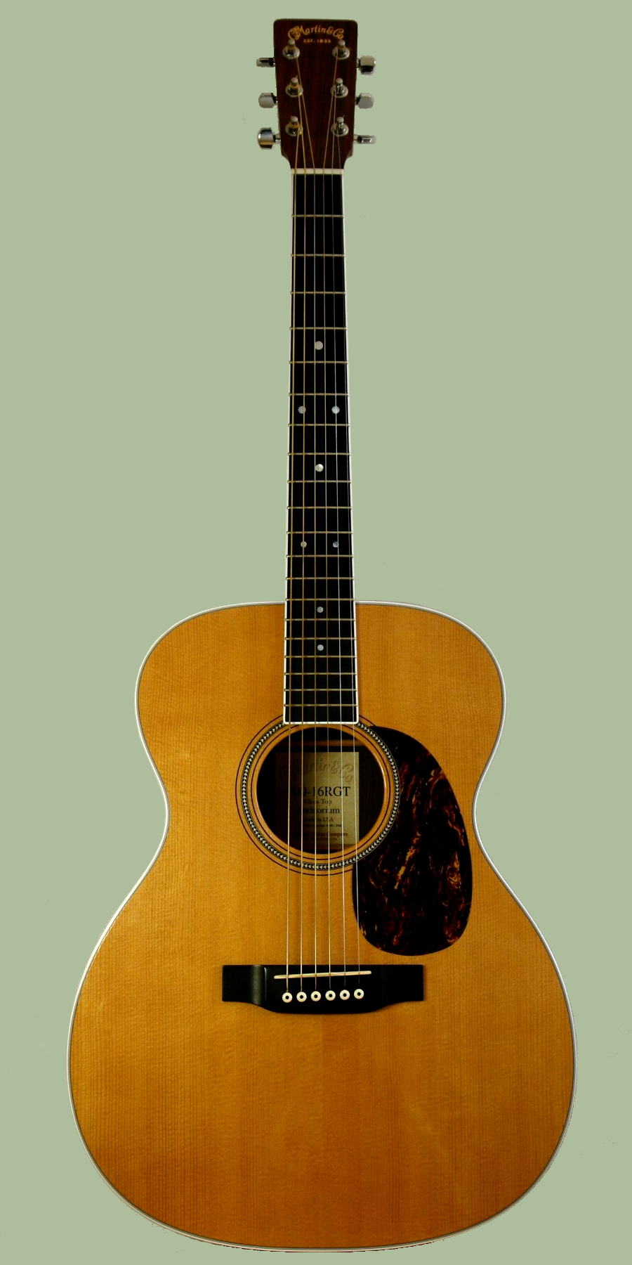 Acoustic guitar, cropped image